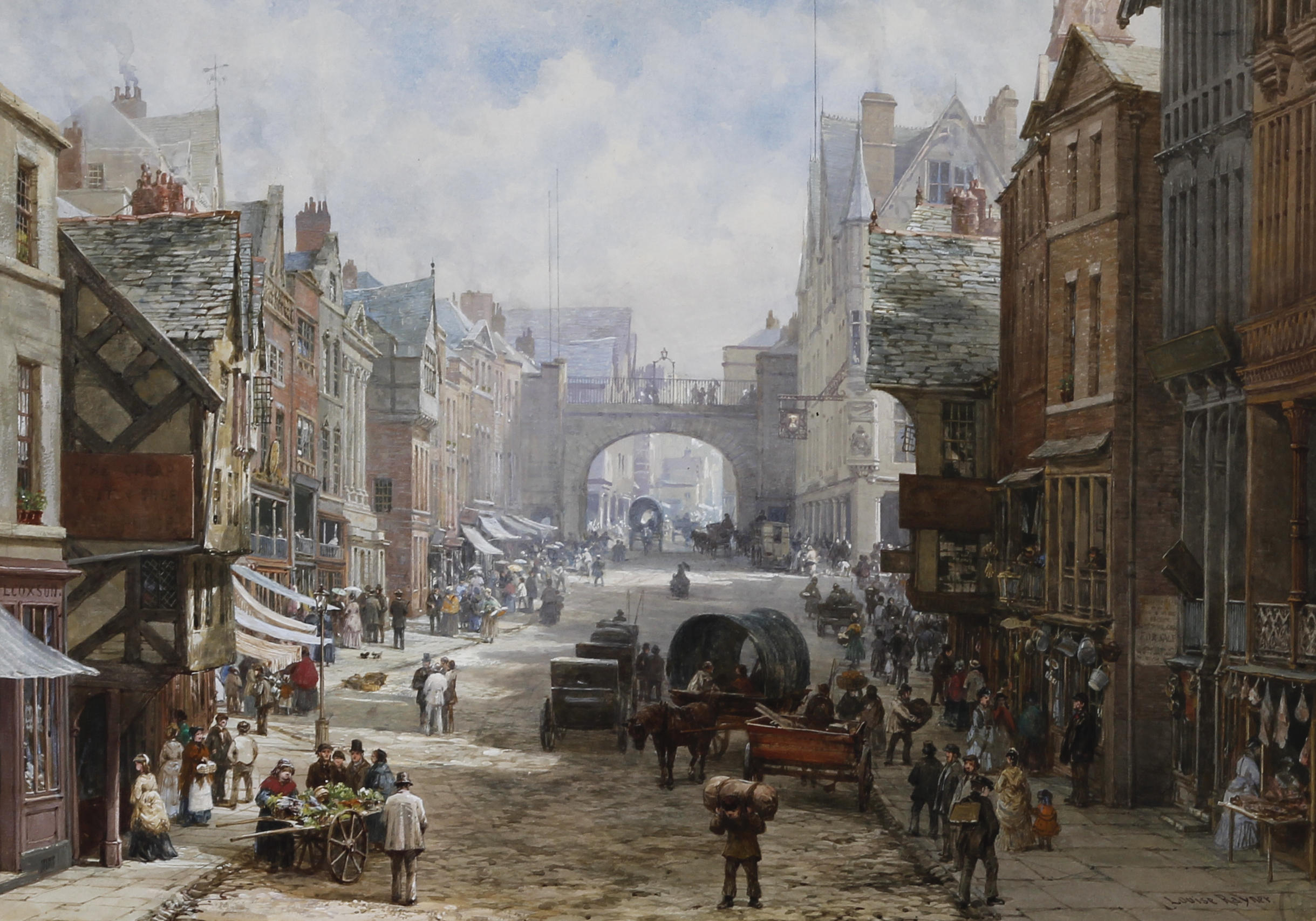 Eastgate Street, Chester, from east of the Cross looking towards the Eastgate. The Grosvenor Hotel on the right. Signed Louise Rayner. Watercolour 40.5 x 57 cm